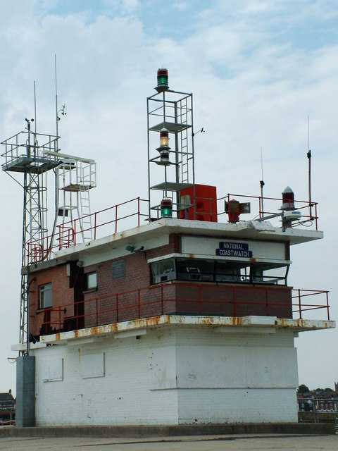 Coast Guard Station, Gorleston